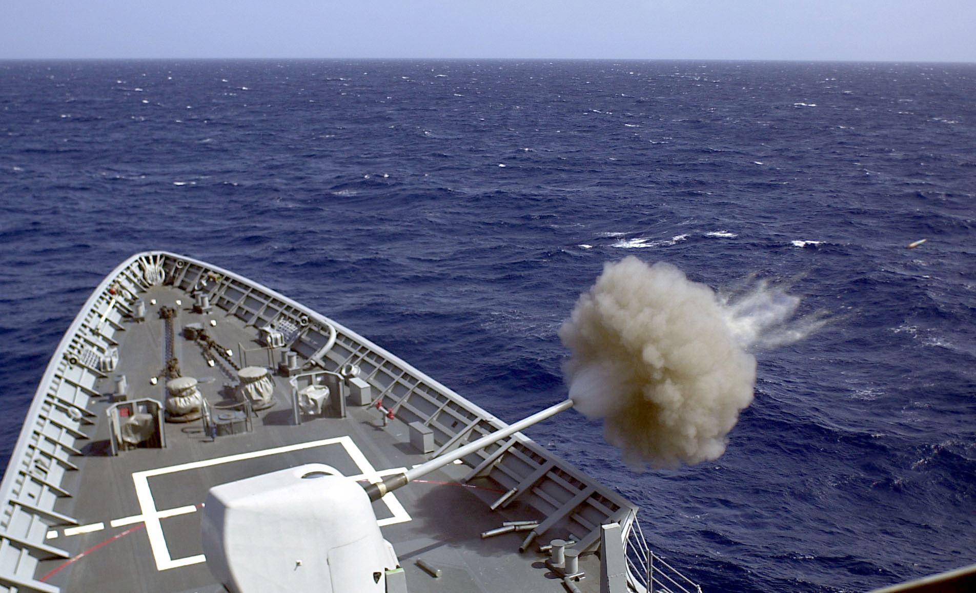 USS Yorktown (CG 48) fires its 5 inch gun at a target drone during a gun exercise. USS Yorktown is currently in the Caribbean Sea for the 43rd annual UNITAS exercise. UNITAS is the largest multi-national naval exercise conducted with Naval Forces from the United States, Caribbean Sea, South and Central America.